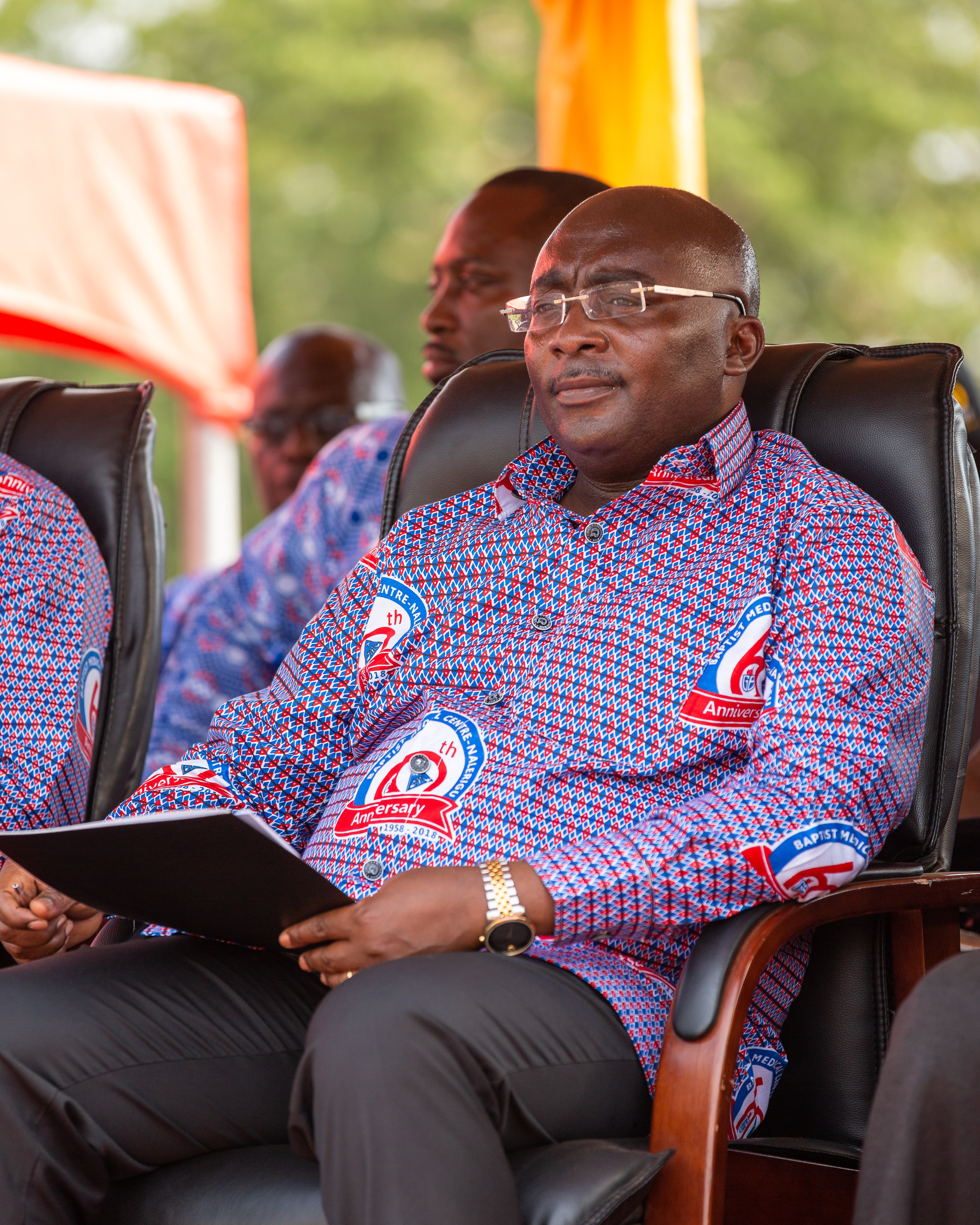 Dr. Mahamudu Bawumia attending the 60th Anniversary of the Baptist Medical Centre in his hometown of Nalerigu, Ghana on November 8, 2018.